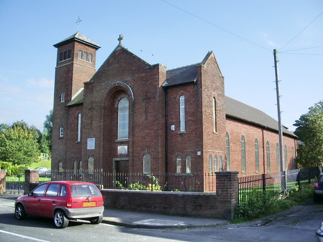 St Mary's Catholic Church, Clayton-le-Moors